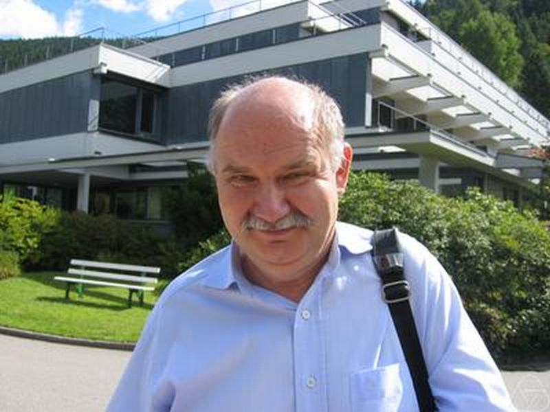 Stanislaw L. Woronowicz, Oberwolfach 2004